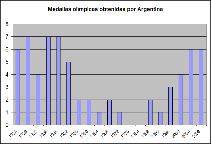 Olimpic medals won by Argentinean sport players.